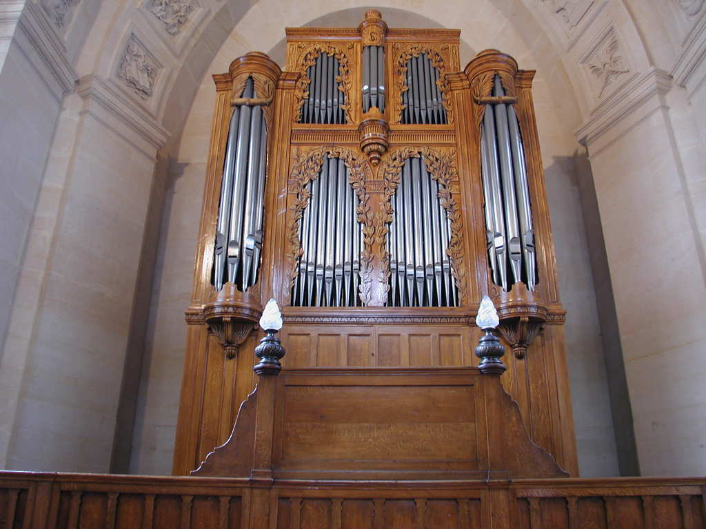 Cavaillé-Coll organ of the parisian church : Val-de-Grâce